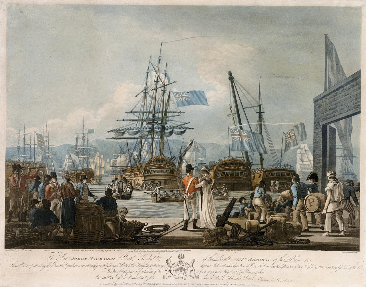 To Sir James Saumarez... This Plate representing the British Squadron... preparing to pursue the Combined Squadron of France & Spain, on the Afternoon of the 12th of July 1801...is dedicated by...Edward Harding Hand-coloured aquatint showing Saumarez's squadron of five two-deckers and two frigates preparing to weigh from Gibraltar to re-engage the Franco-Spanish combined fleet of two of 112 guns, one of 94, three of 80, four of 74, plus frigates etc., 12 July 1801. PAH7992 Materialsː aquatint, coloured Measurementsː Sheet: 518 x 658 mm; Mount: 611 mm x 836 mm